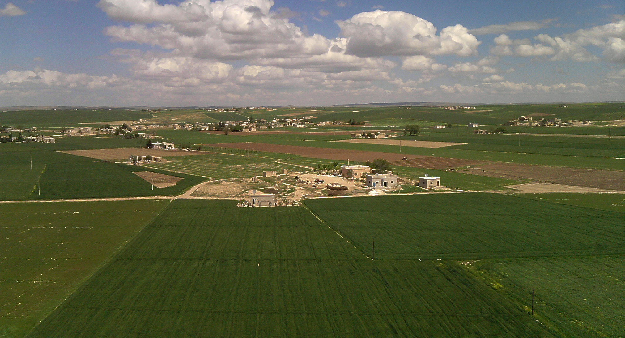 منظر عام لقرية إيلجاغ من فوق تلّها الاثري taken by: Osman M. ALI